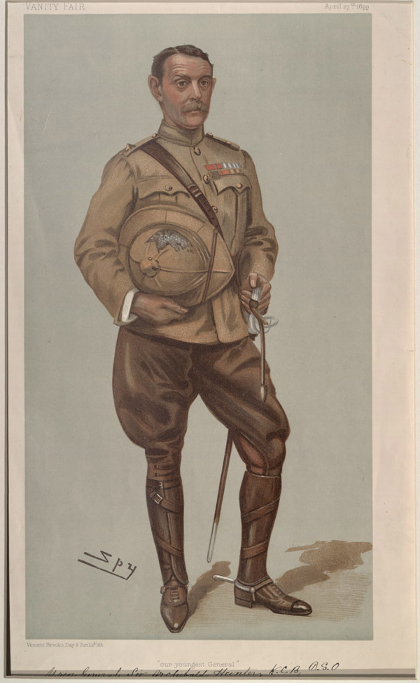 Men of the Day No.747: Caricature of Maj-Gen Sir Archibald Hunter KCB DSO. Caption reads: "our youngest General"